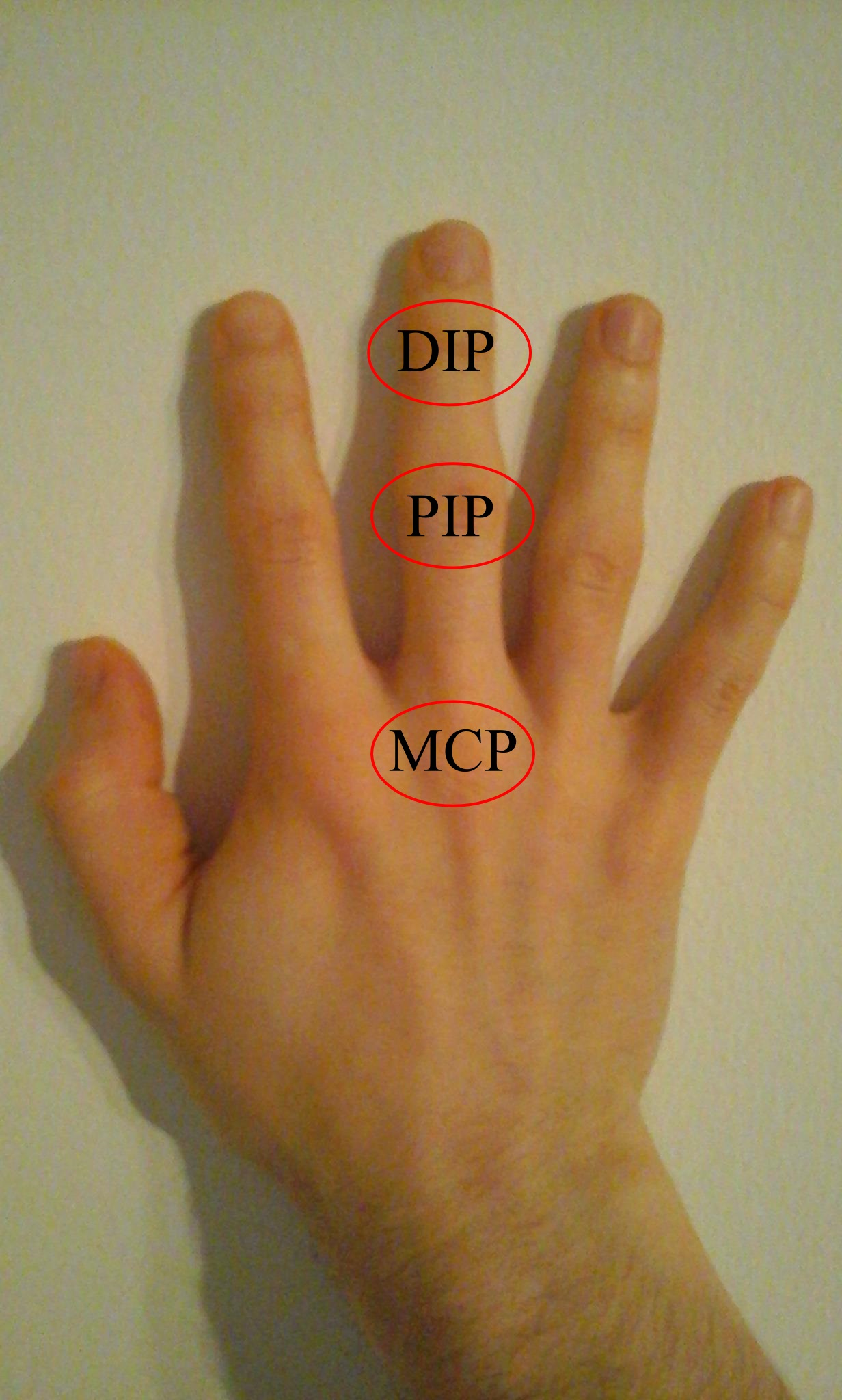 Showing the distal interpahalangeal (DIP), the proximal interphalangeal (PIP) and the metacarpophalangeal (MCP) joints on the right hand.